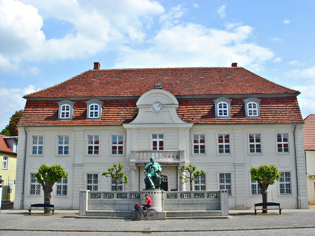 Former town hall of Stavenhagen, now a literature museum dedicated to Fritz Reuter (memorial of him in front of it). It was built between 1783 - 1788 in baroque style.